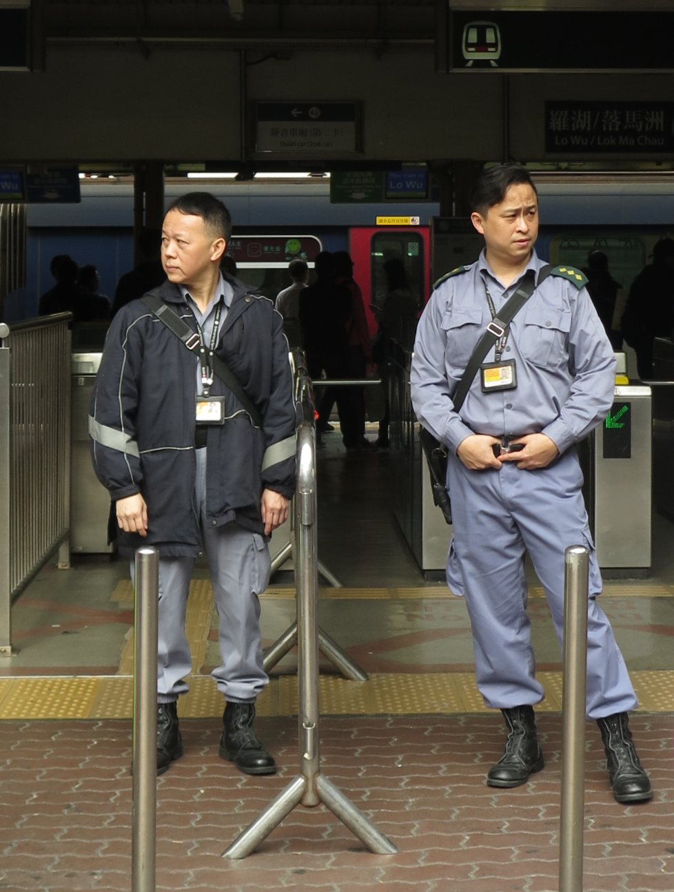 By-laws Inspection Unit